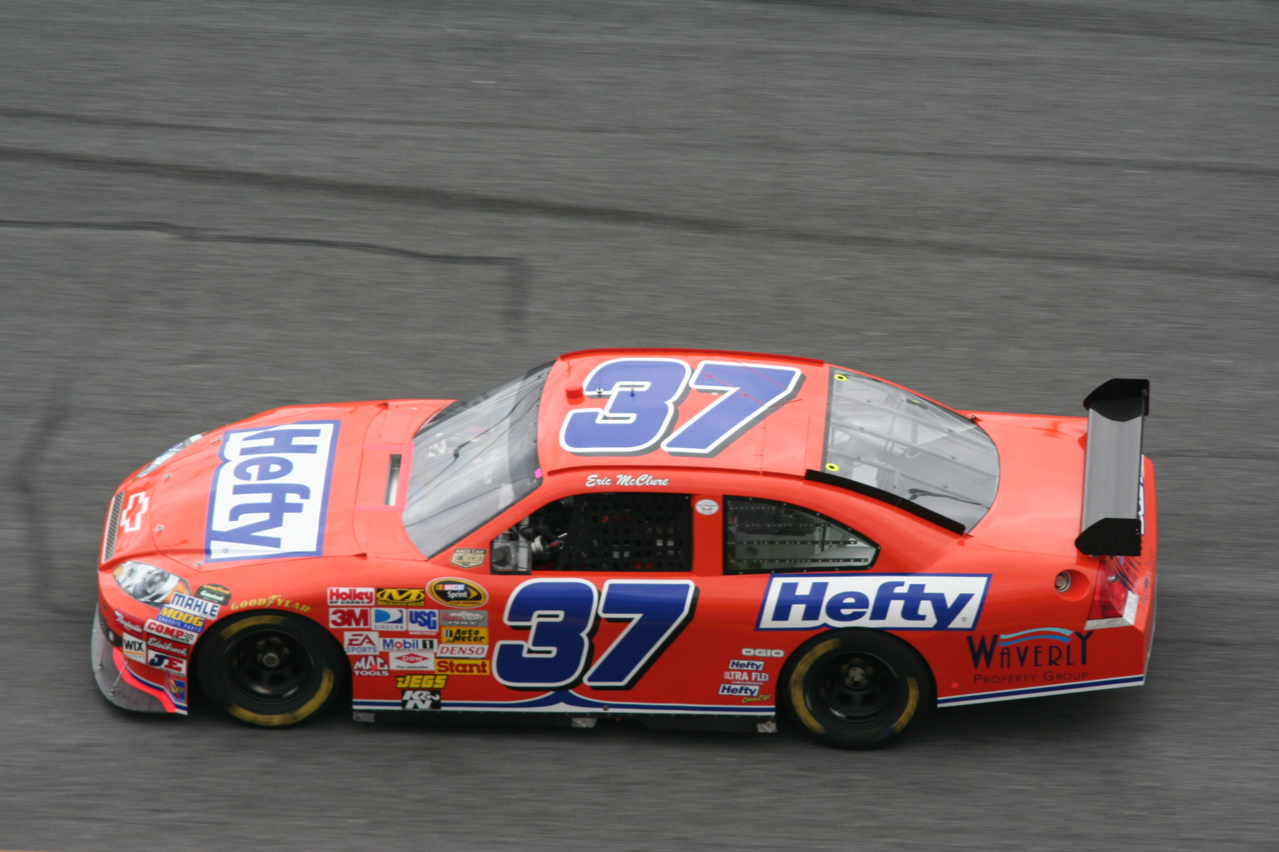 Shot by The Daredevil at Daytona during Speedweeks 2008Eric McClure Hefty Chevy Impala